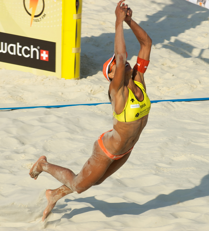 Grand Slam Moscow 2011